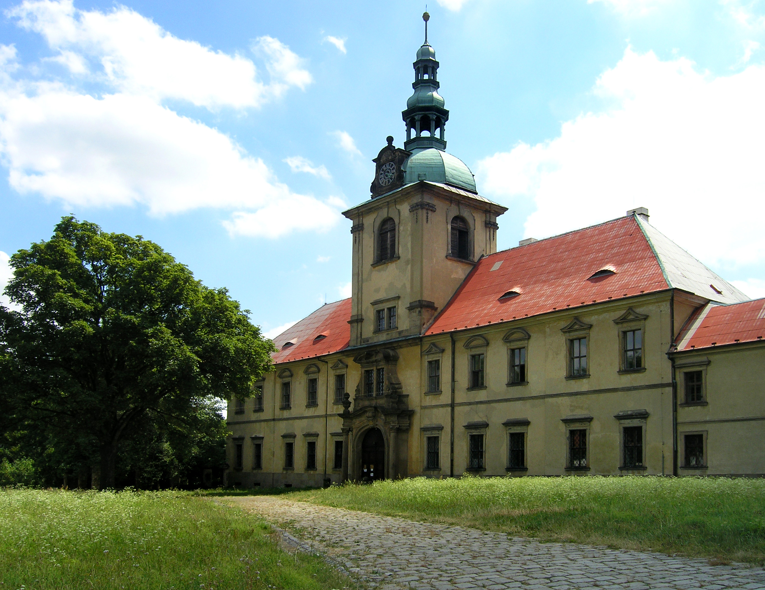 Osek Monastery in Osek town, Czech Republic